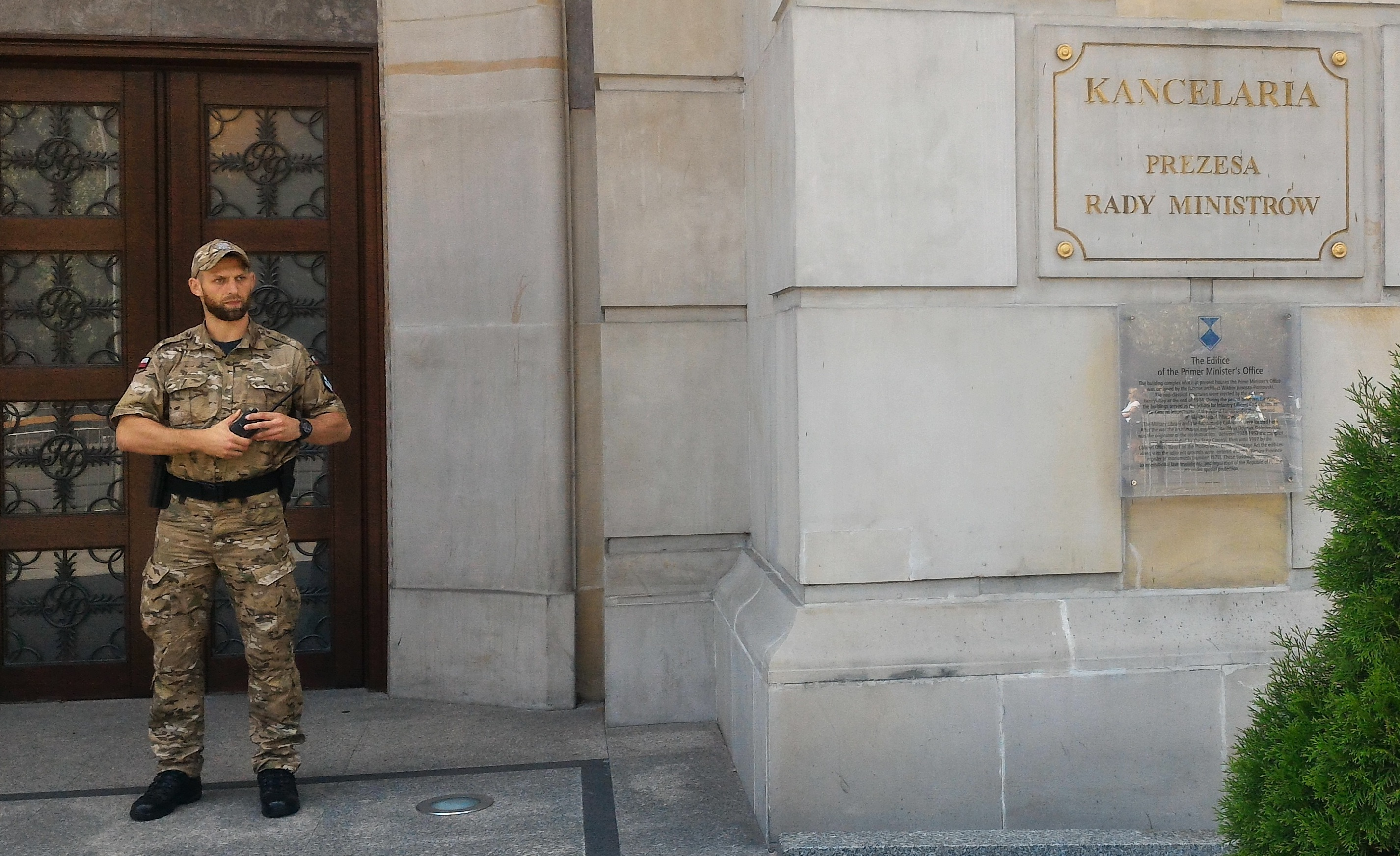 An officer of polish Government Protection Bureau standing guard in front of the Chancellery of the Prime Minister of Poland.